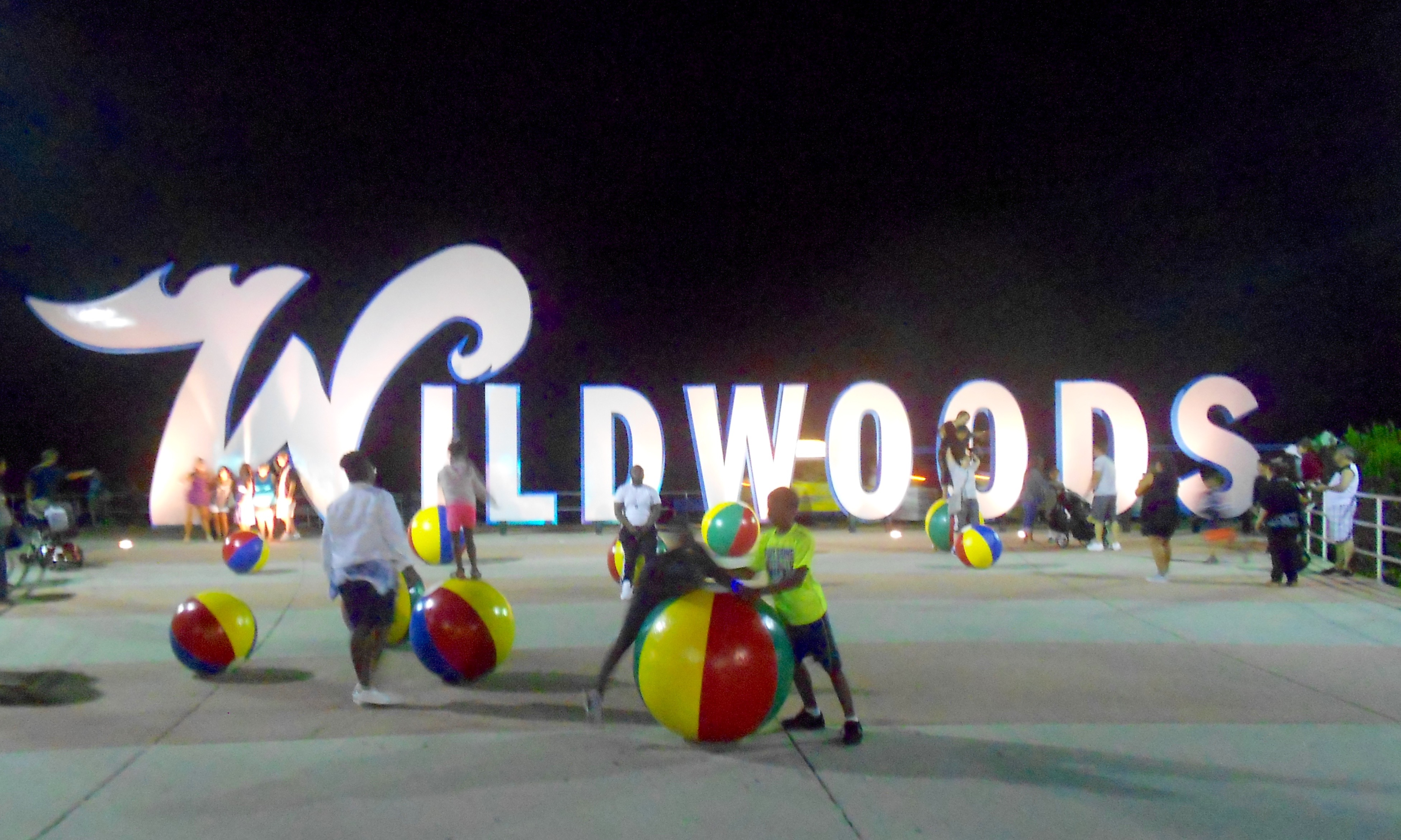 "Wildwoods" sign in Wildwood, New Jersey by the boardwalk